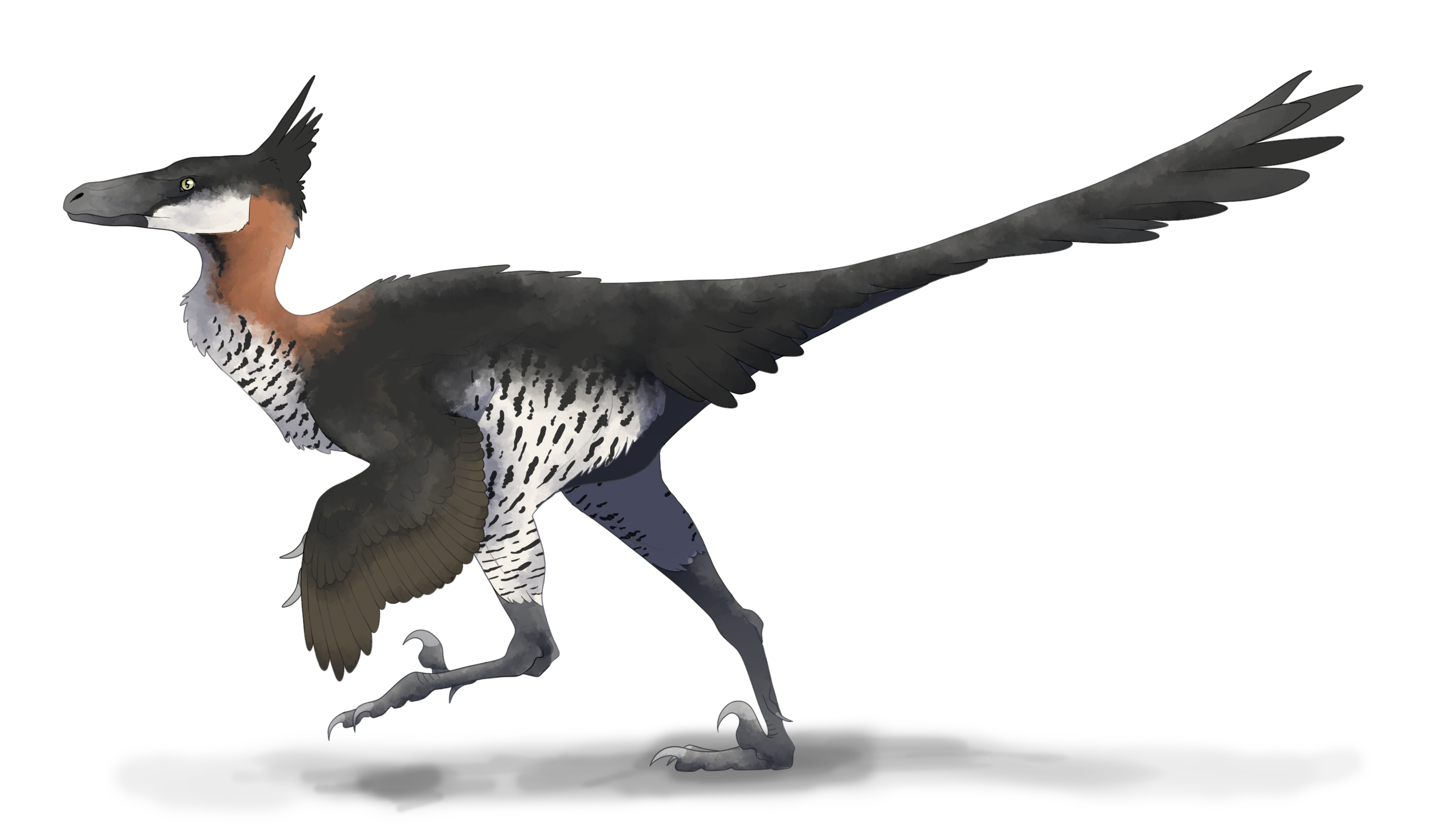 A restoration of Saurornithoides mongoliensis based on skeletal diagrams and related troodontid species.